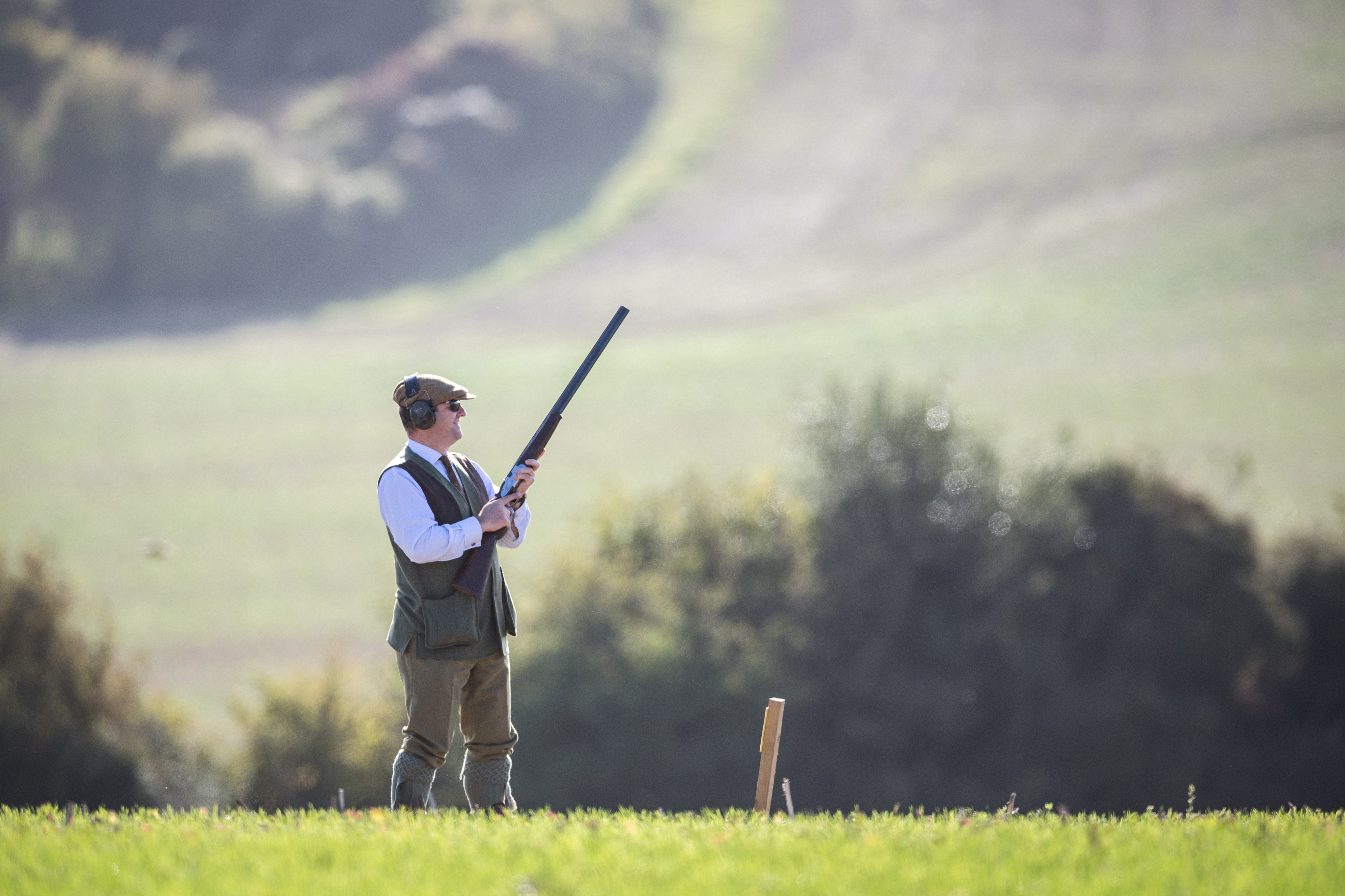 bird shooting - Hampshire Macnab: roe, rod and redleg